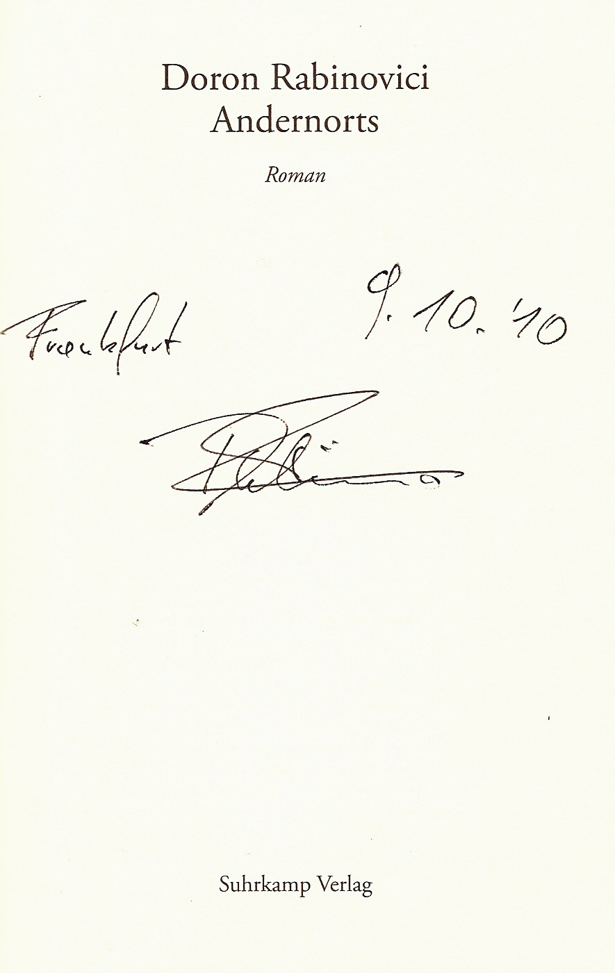 Autograph from Doron Rabinovici, 2010 in Frankfurt am Main, Germany.